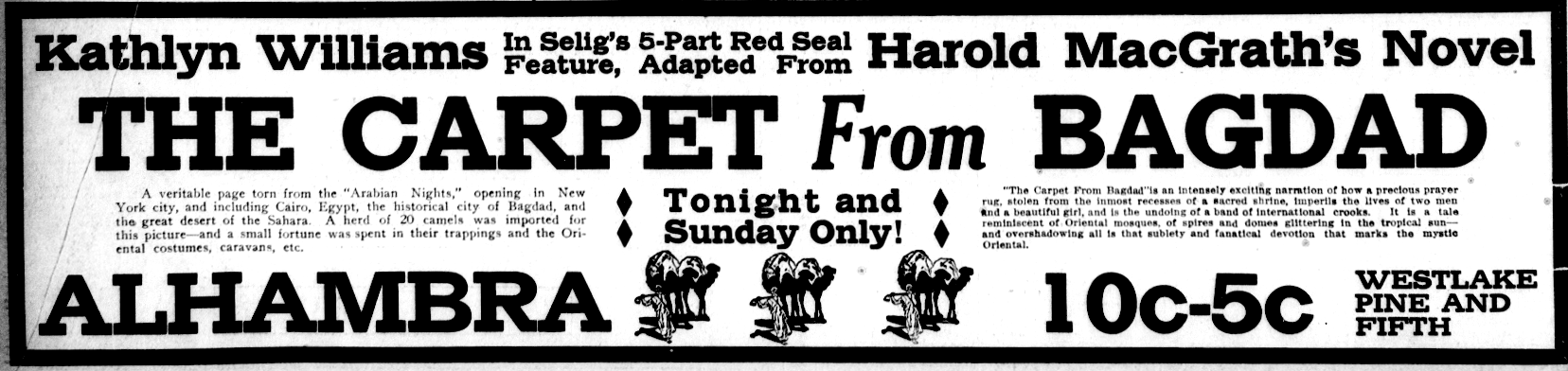 Seattle newspaper ad for the film "The Carpet from Bagdad".